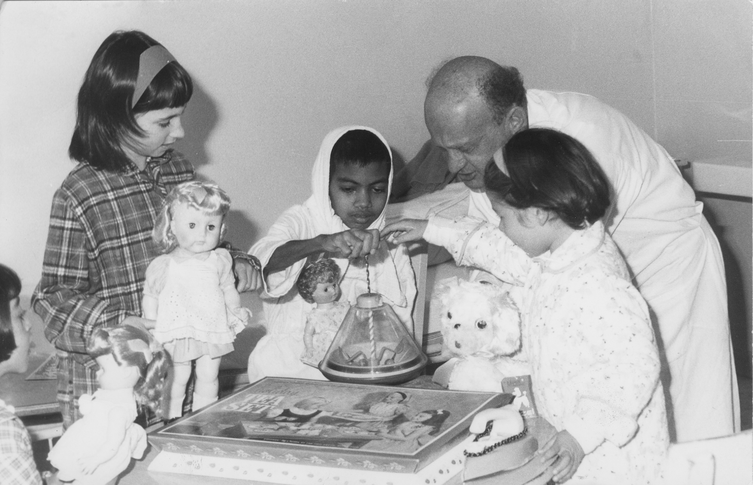 Dr Joseph Bar-Hai together with his patients